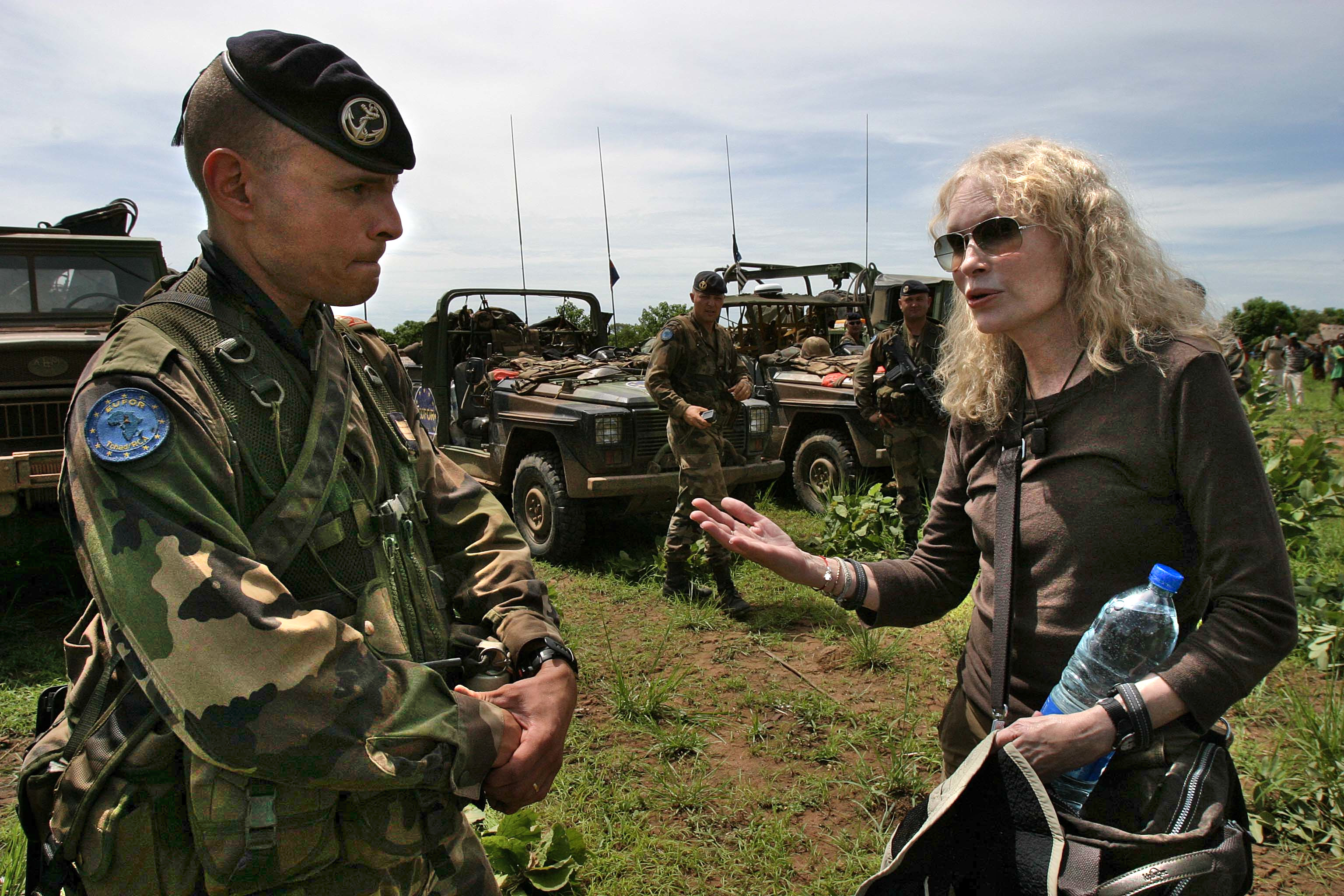 UNICEF Goodwill Ambassador Mia Farrow in discussion with one of the soldier of the European Union Force Chad/Central African Republic (CAR) in Sam Ouandja, north-east CAR close to the Darfur’s border, 16 May 2008. Its mandate includes taking necessary measures to protect civilians, facilitate delivery of humanitarian aid, and ensure the safety of UN personnel. The threat of kidnappings, rape and killings are an everyday part of life for people living in CAR, according to the internationally acclaimed actress Mia Farrow who has just completed a week long visit to the country. Credits: Pierre Holtz for UNICEF